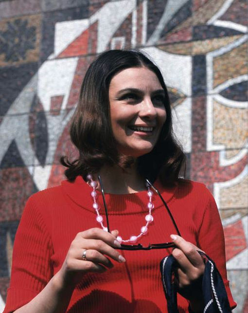 The Moldavian cinema actress Svetlana Toma (the end 60 - the beginning of 70th years).